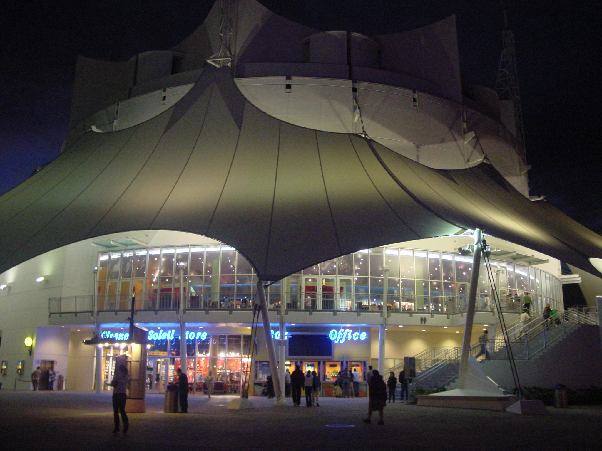 The home of Cirque du Soleil's La Nouba, which is located in Downtown Disney at the Walt Disney World Resort near Orlando, Florida.